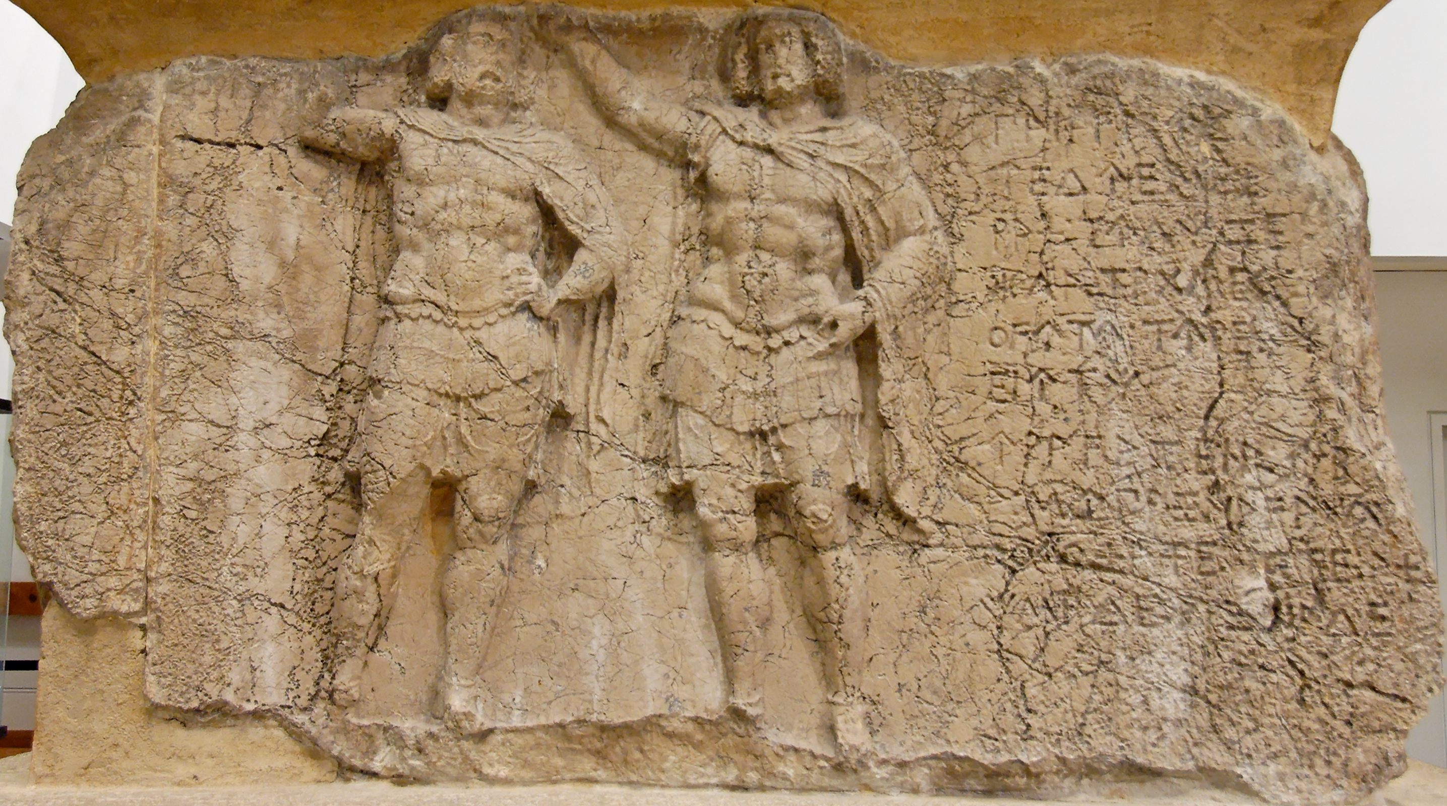 Two men in military dress, wearing a cuirass with pendant leather straps, a cloak and greaves. The Lydian inscription runs: “Payava, son of Ad[…], secretary of A[…]rah, by race a Lycian…”. South side of the second tier of the tomb of Payava. Marble, ca. 375–360 BC. From Xanthos (modern Günük), Turkey.